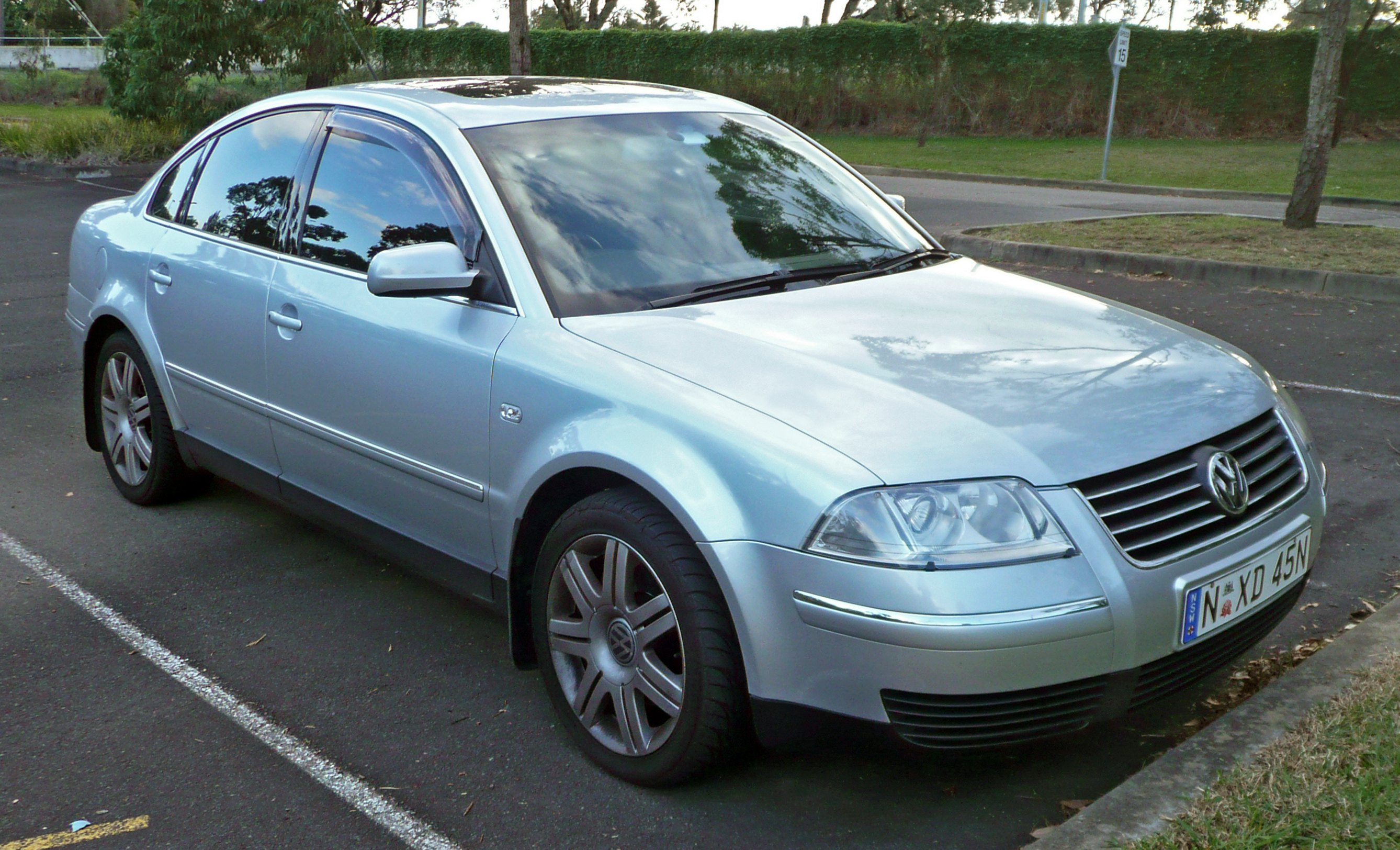 2003 Volkswagen Passat (3BG MY03) SE V6 sedan. Photographed in Loftus, New South Wales, Australia.